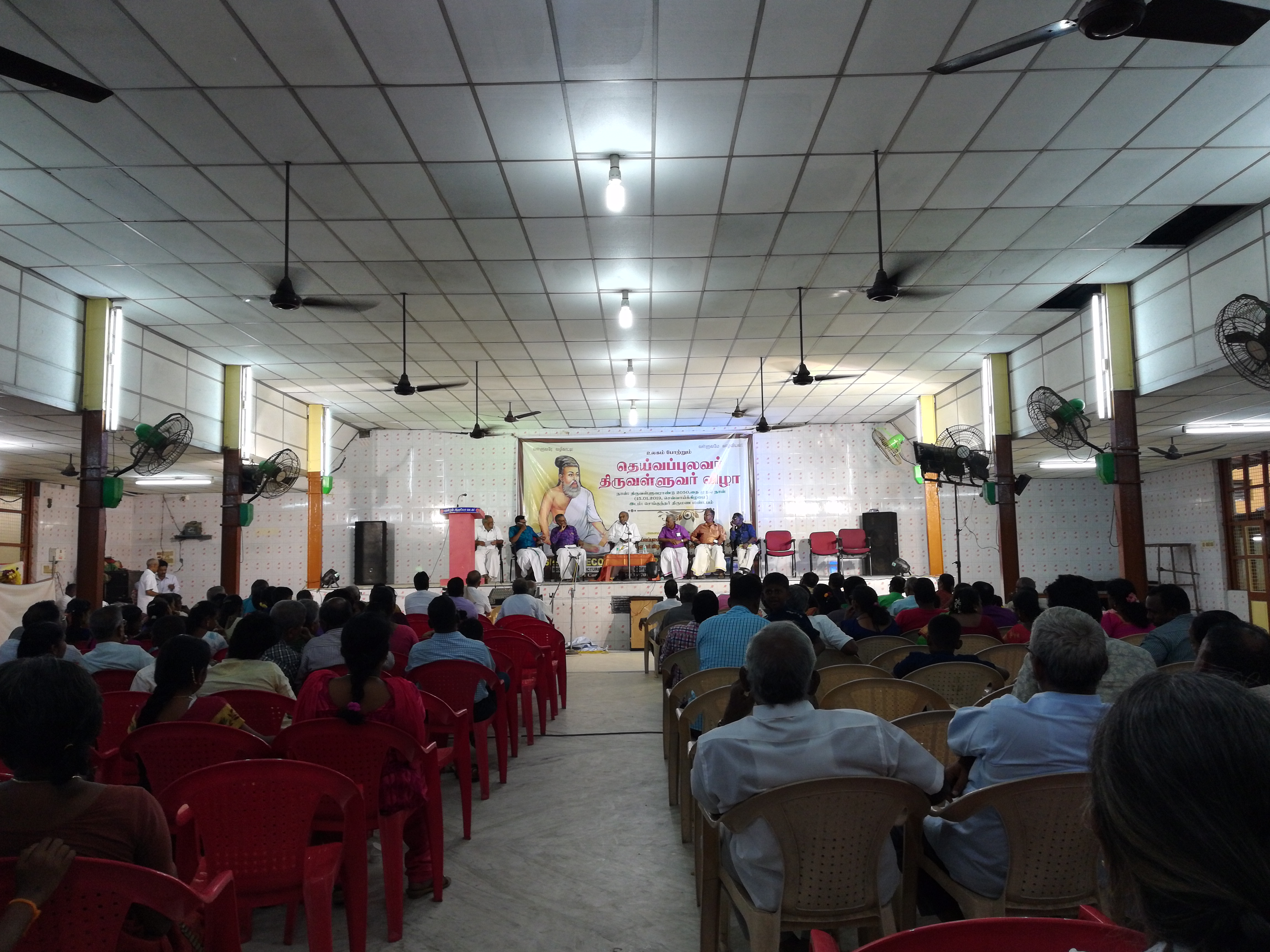 Kural Discourse held in Kundrathur, Chennai, India on 15 January 2019